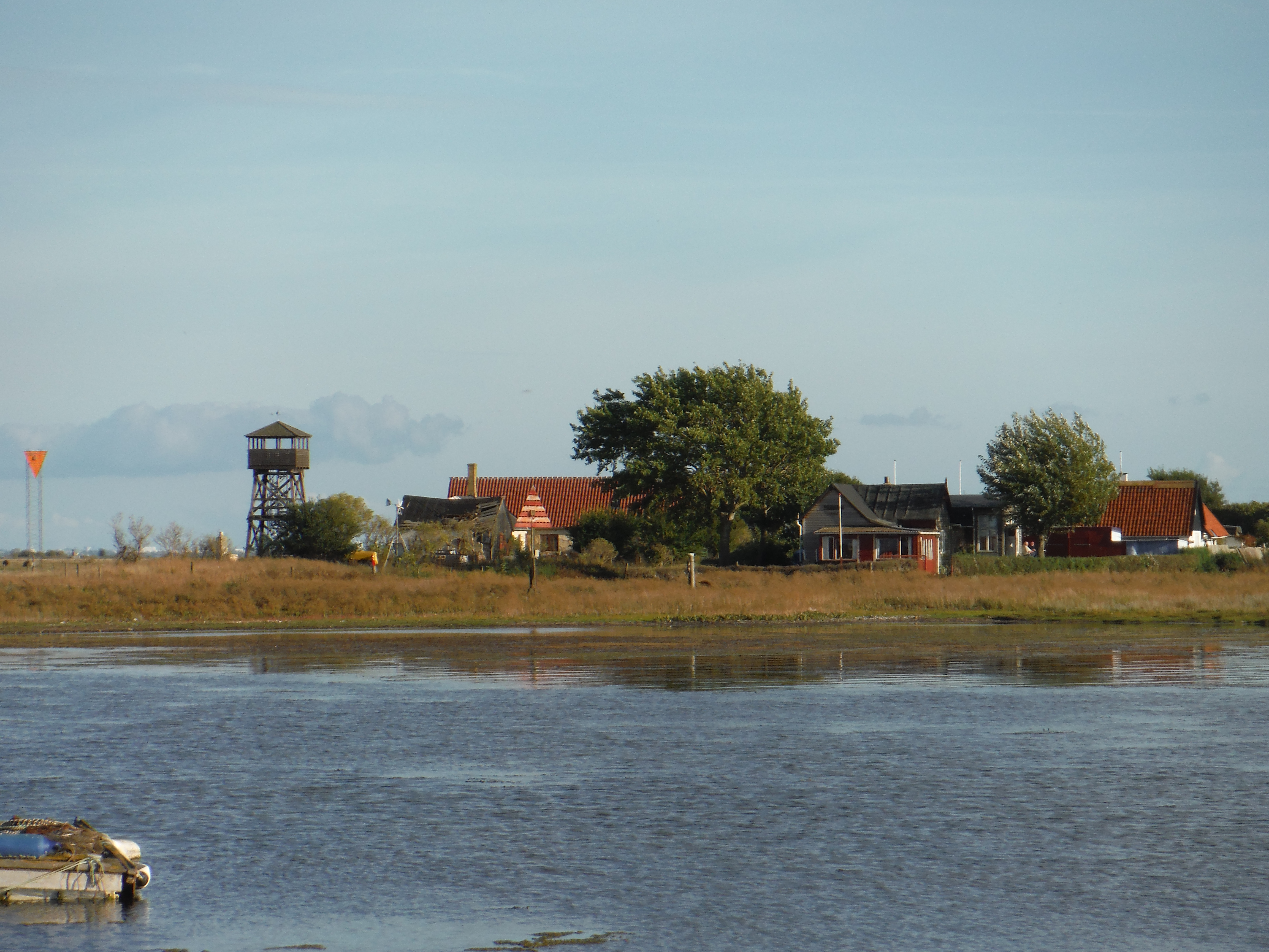 Barakkebyen on Saltholm Denmark